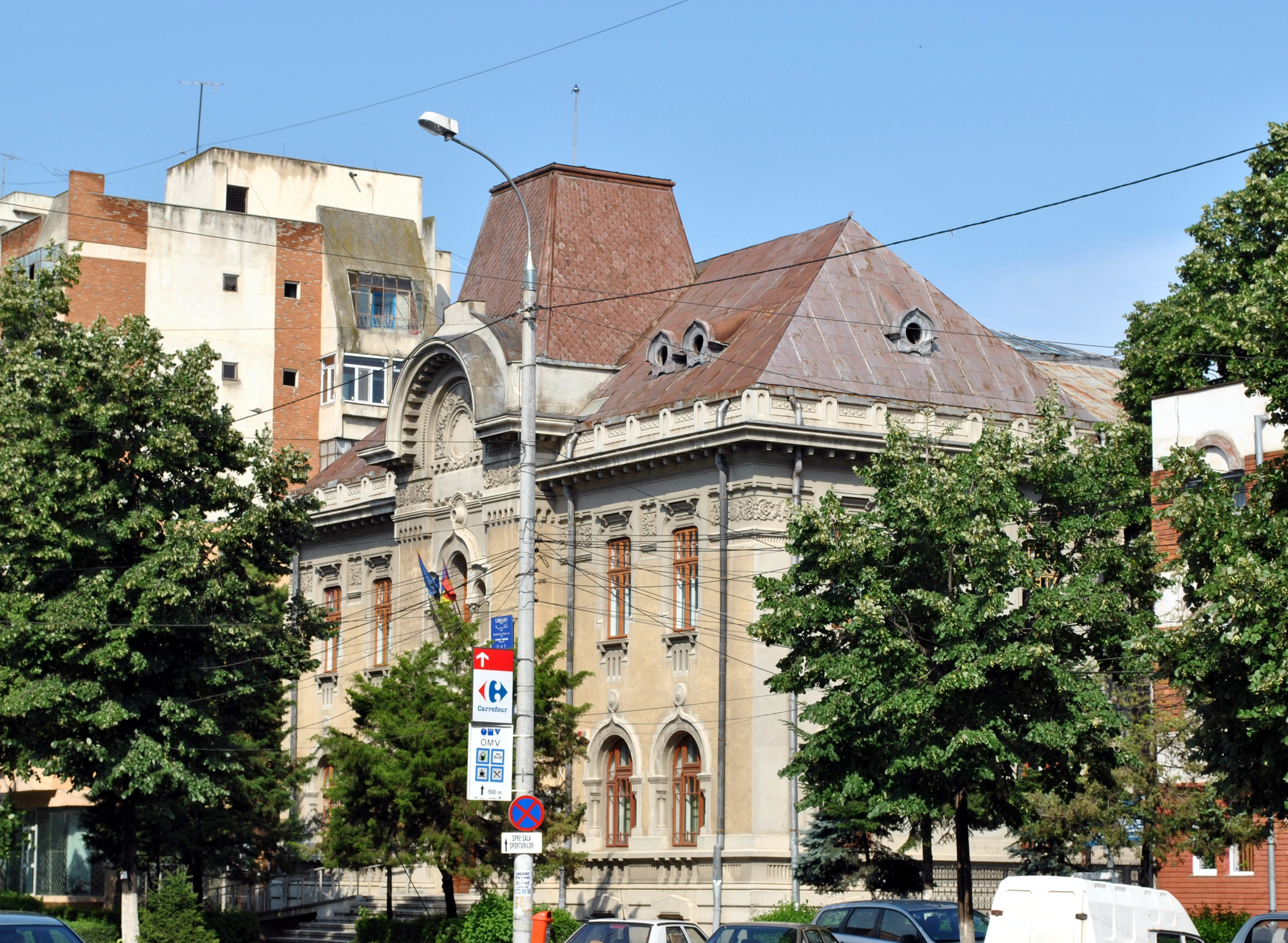 The "Vasile Voiculescu" County Library in Buzău, RomaniaRomână: Biblioteca judeţeană "Vasile Voiculescu" din Buzău, România